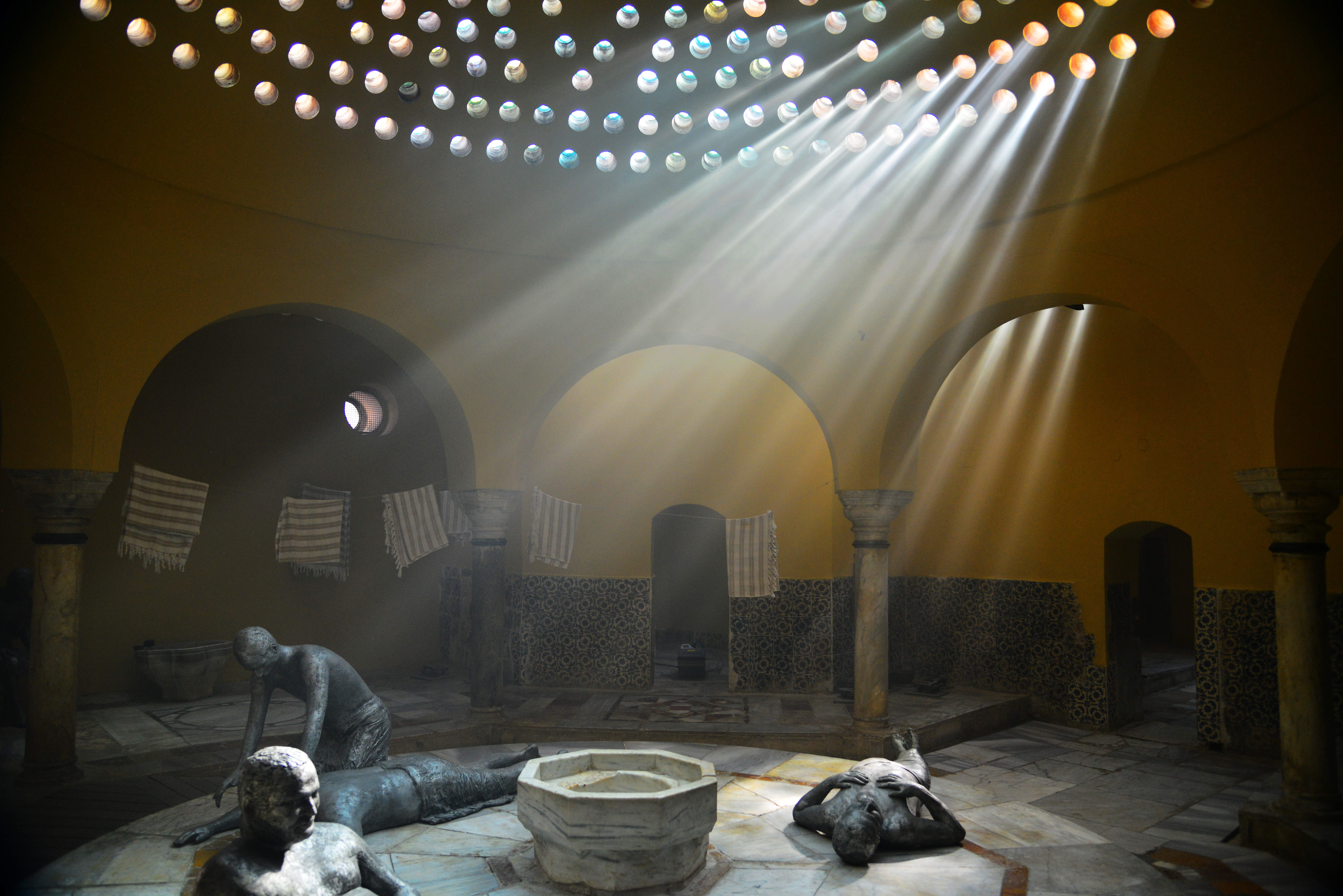 heritage sites in Israel photo international competition